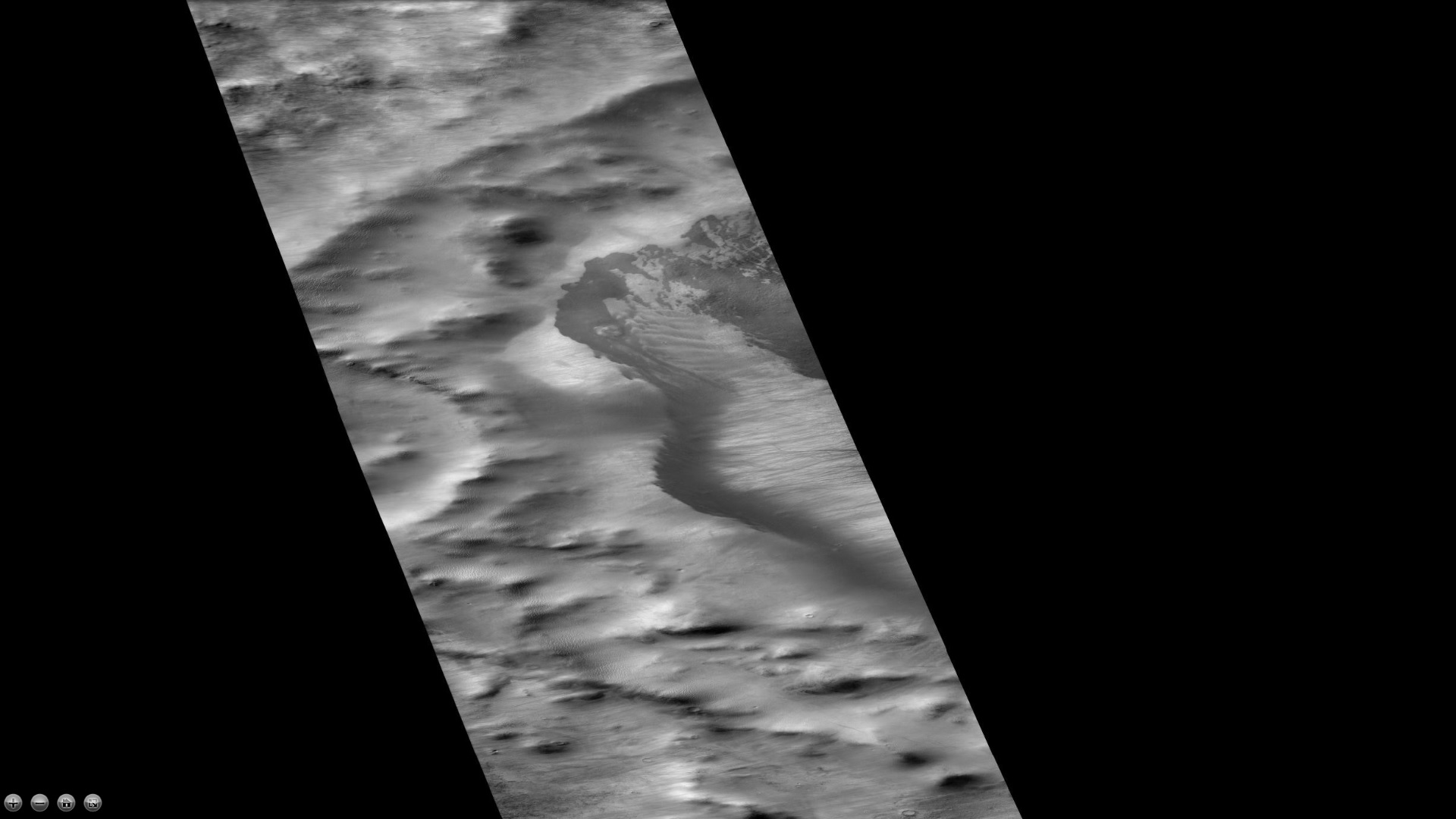 Steno crater, as seen by ctx